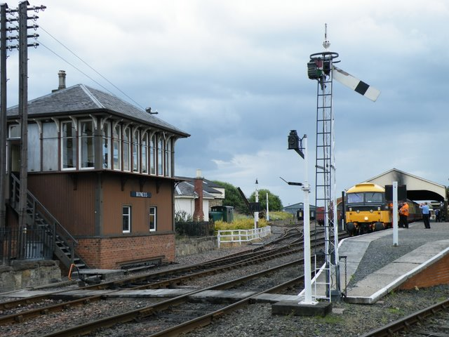 Bo'ness and Kinneil Railway